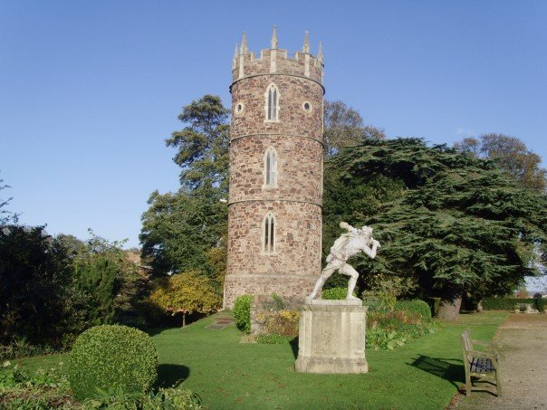 Follies of Goldney Hall